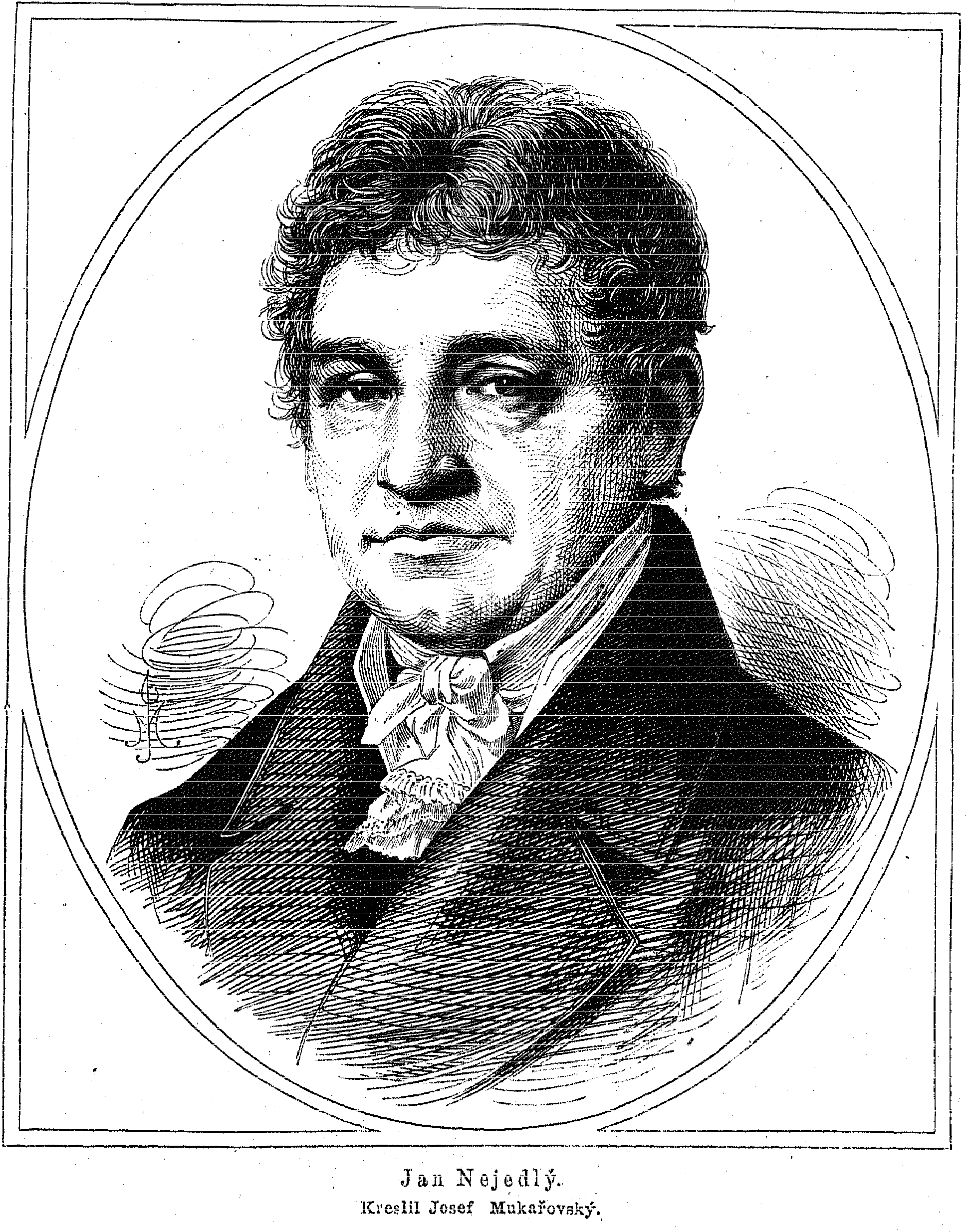 Portrait of Jan Nejedlý (1776 - 1834), Czech poet and translator.